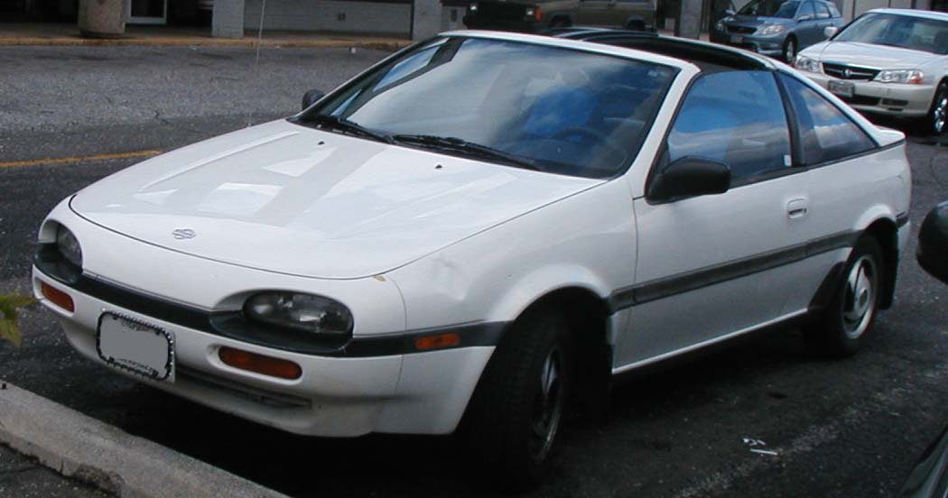 Nissan NX photographed in USA.